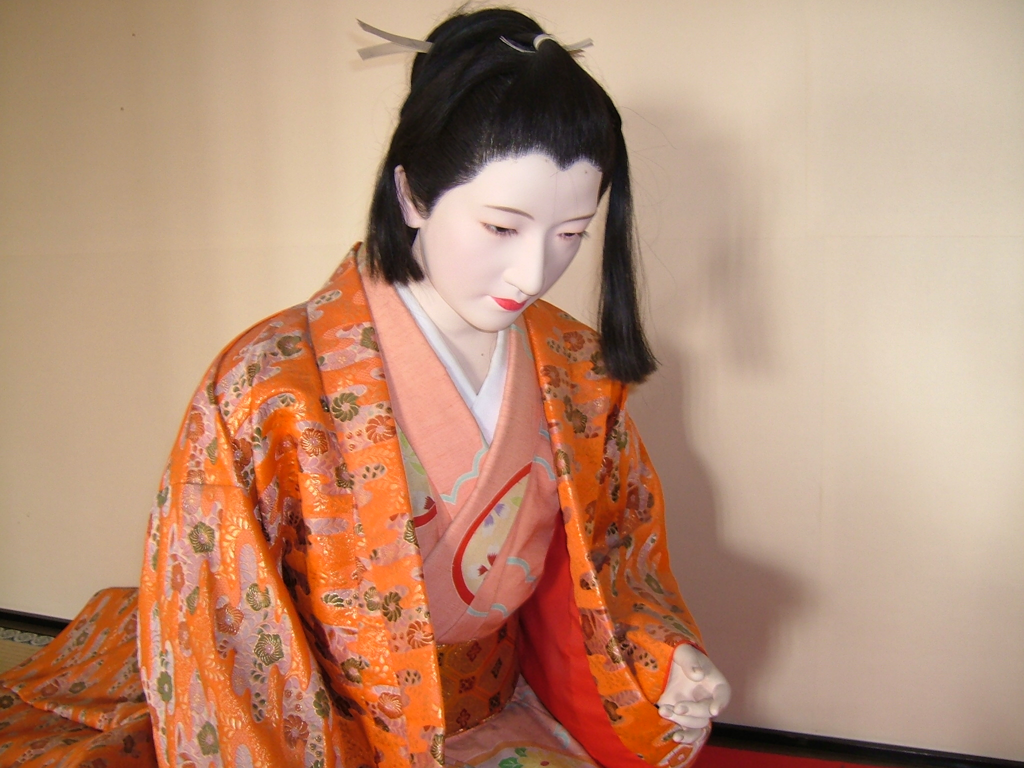 千姫人形 Princess Hime (Senhime) doll at Himeji castle, Japan